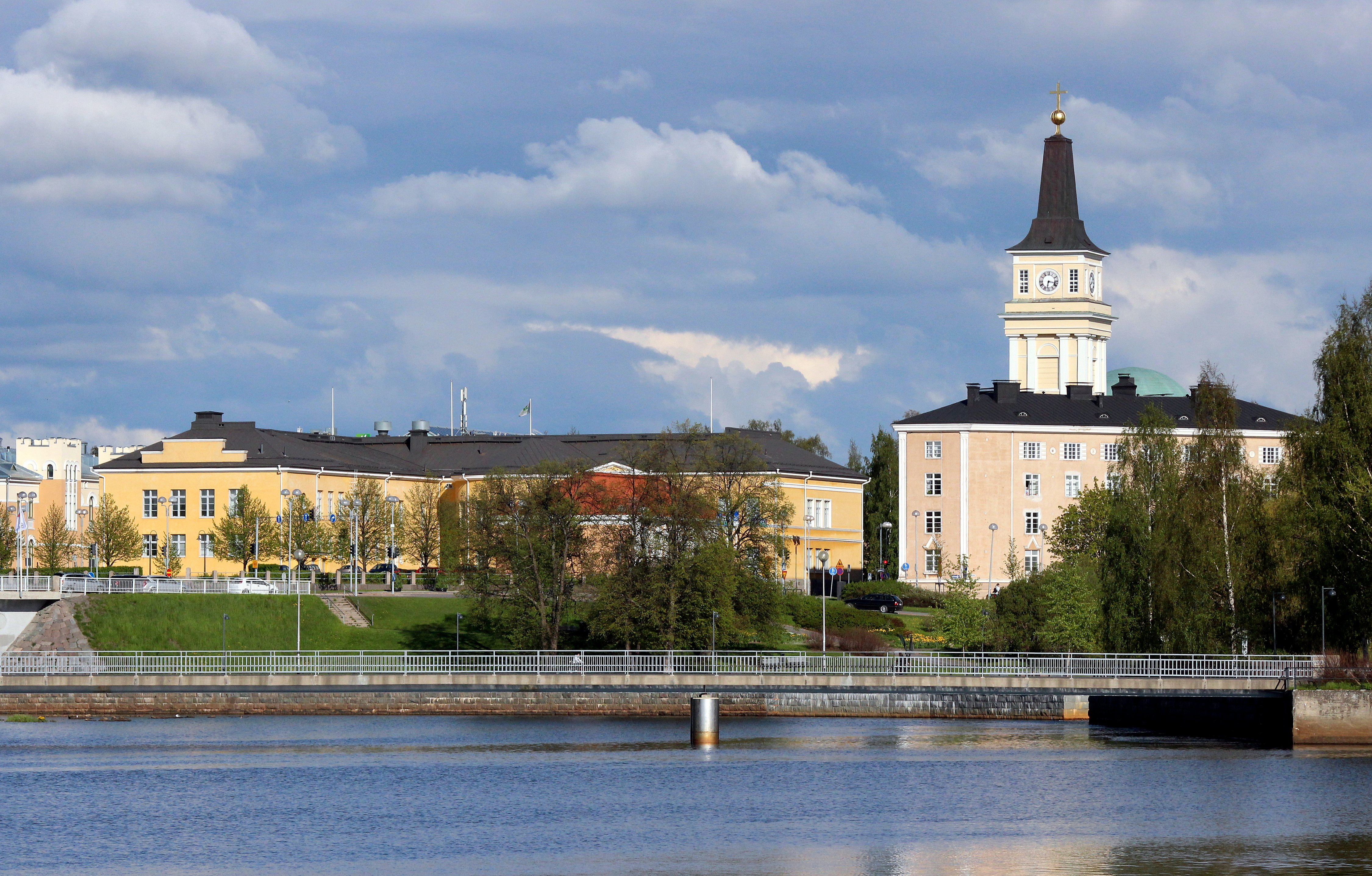 Pokkitörmä, Oulu.